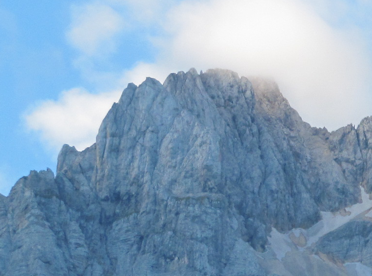 Veliki Oltar, mountain in Julian Alps, Slovenia